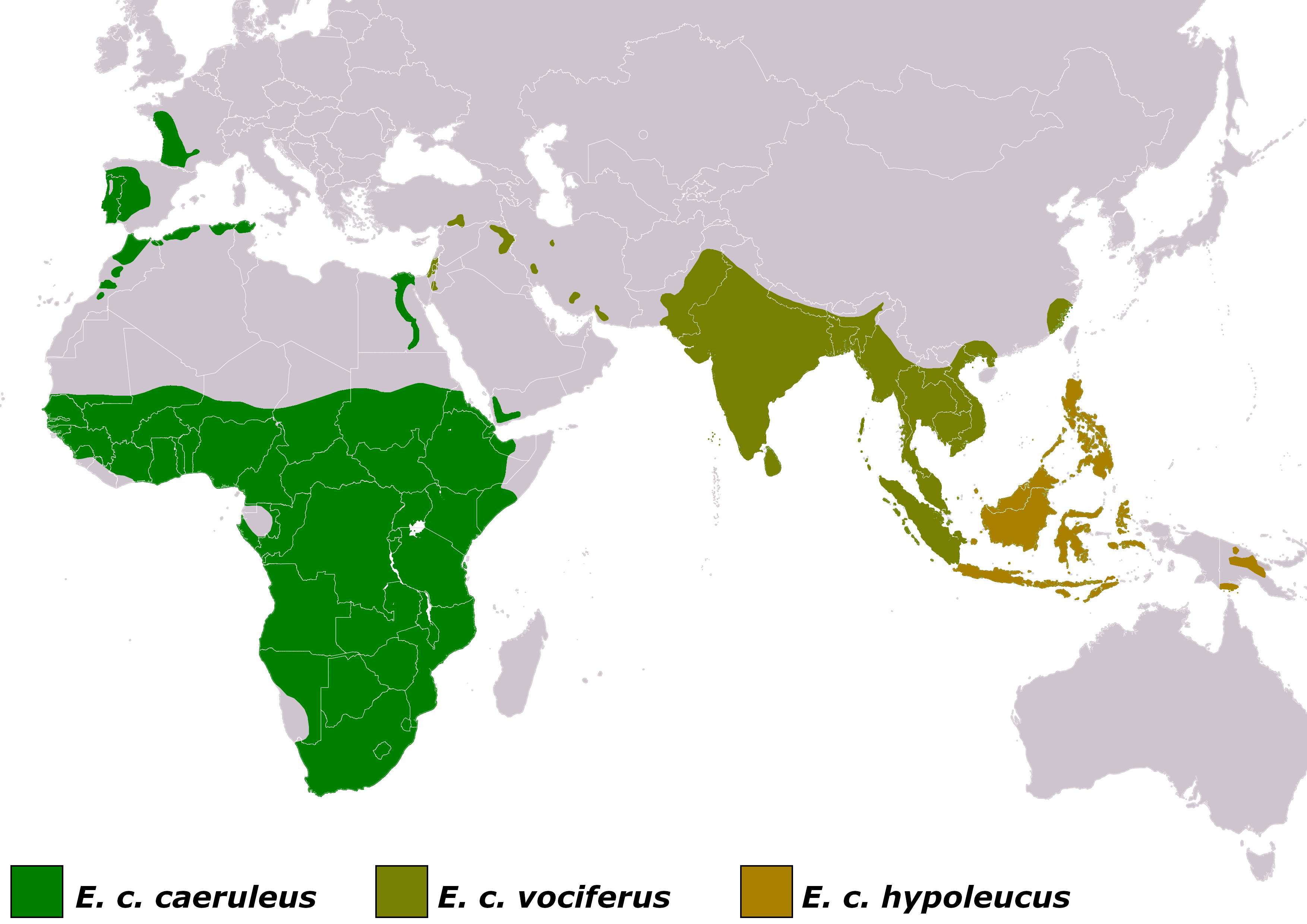 Distribution map of Black-winged Kite (Elanus caeruleus) according to IUCN version 2019.3; key: Legend: Extant, resident (#008000), Extant, non-breeding (#007FFF)